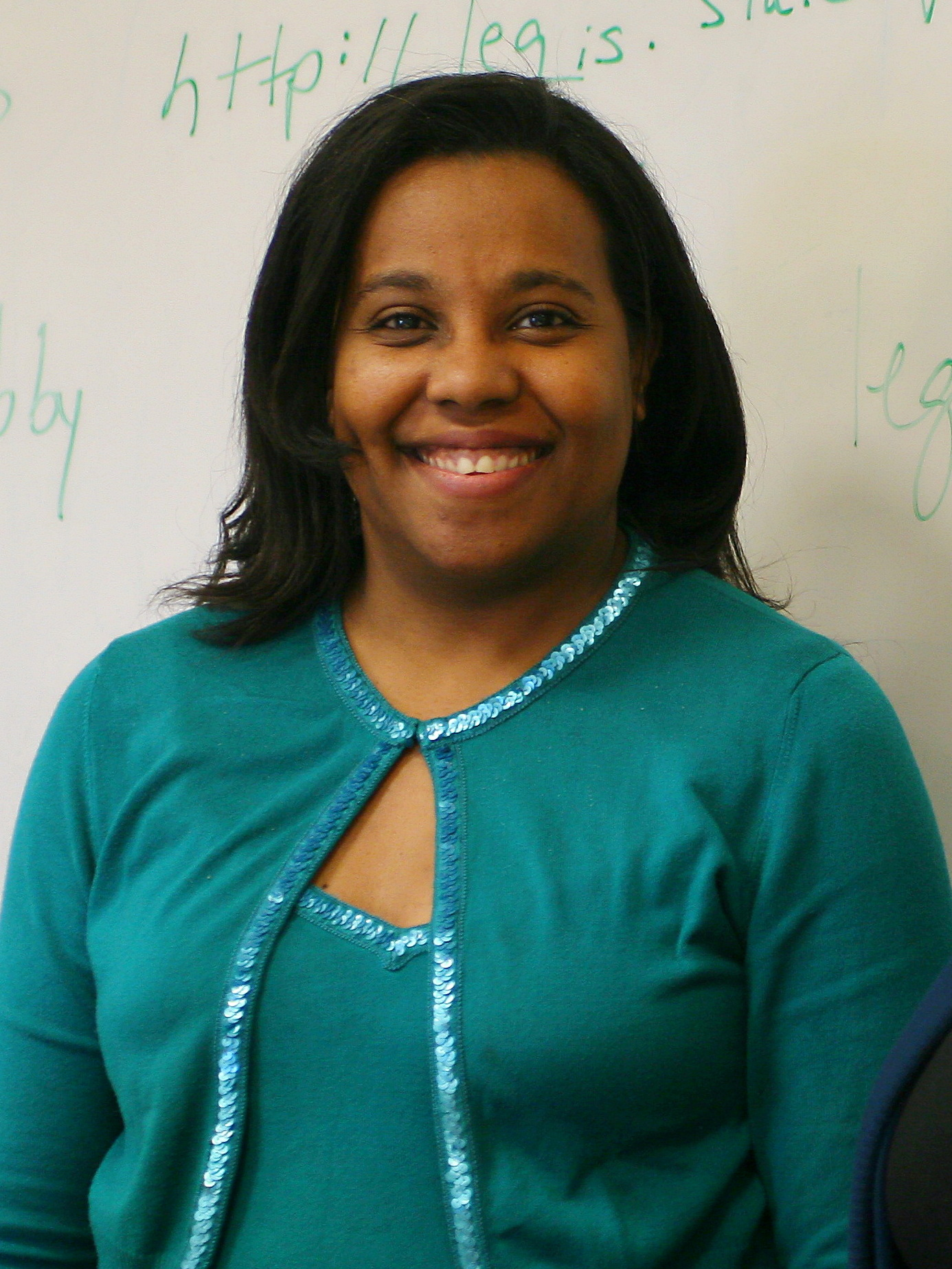 Picture of Charniele Herring in front of a whiteboard. Cropped/levels adjusted from the original.